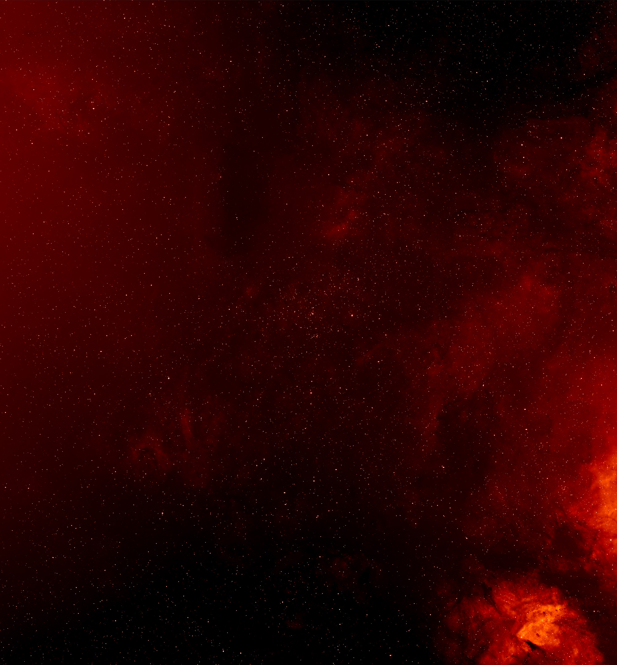 H-alpha image of the Cygnus OB2 star cluster